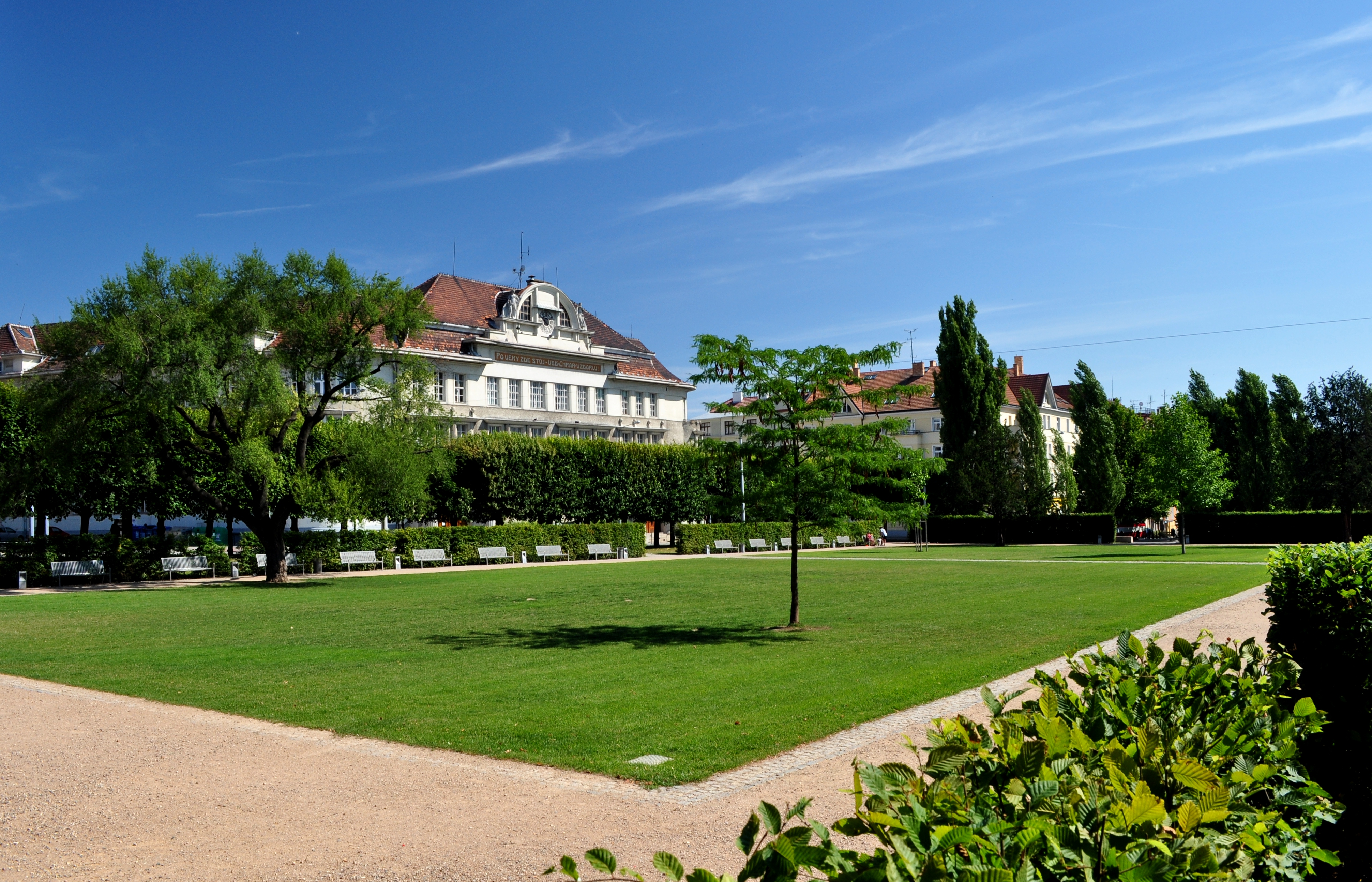 Slavic square in Brno, Moravia, Czech Republic